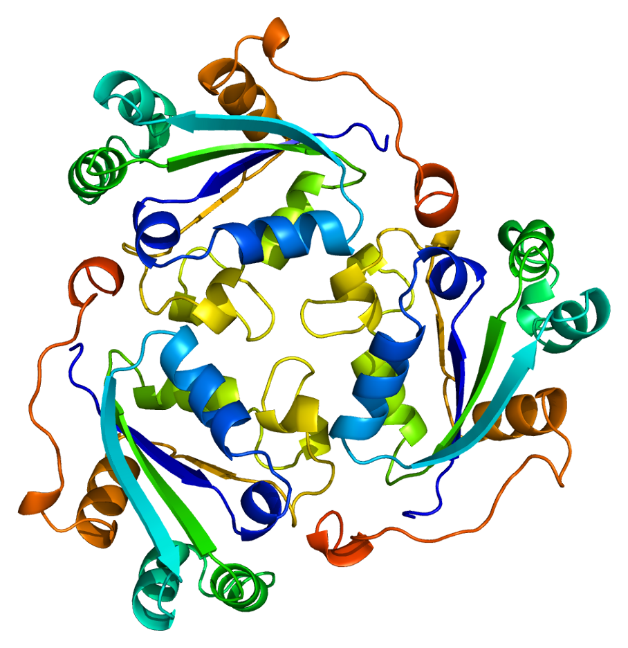 Structure of the NME1 protein. Based on PyMOL rendering of PDB 1be4.